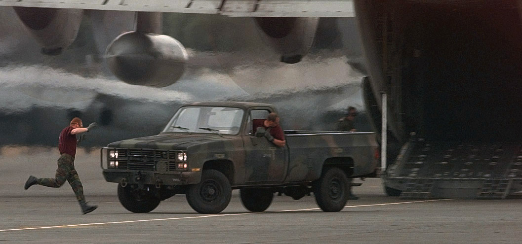 Two Belgian Air Force (BAF) Rodeo 98 Team members back a US Air Force (USAF) Commercial Utility Cargo Vehicle II (CUCV II) Type B cargo truck towards the open cargo bay of their C-130 Hercules aircraft during equipment loading portion of the Engine Running Onload/Offload (ERO) competition, which is part of the overall USAF Air Mobility Command (AMC) sponsored Rodeo 98 airlift competition at McChord Air Force Base (AFB), Washington (WA). Location: MCCHORD AFB, WASHINGTON (WA), UNITED STATES OF AMERICA (USA)